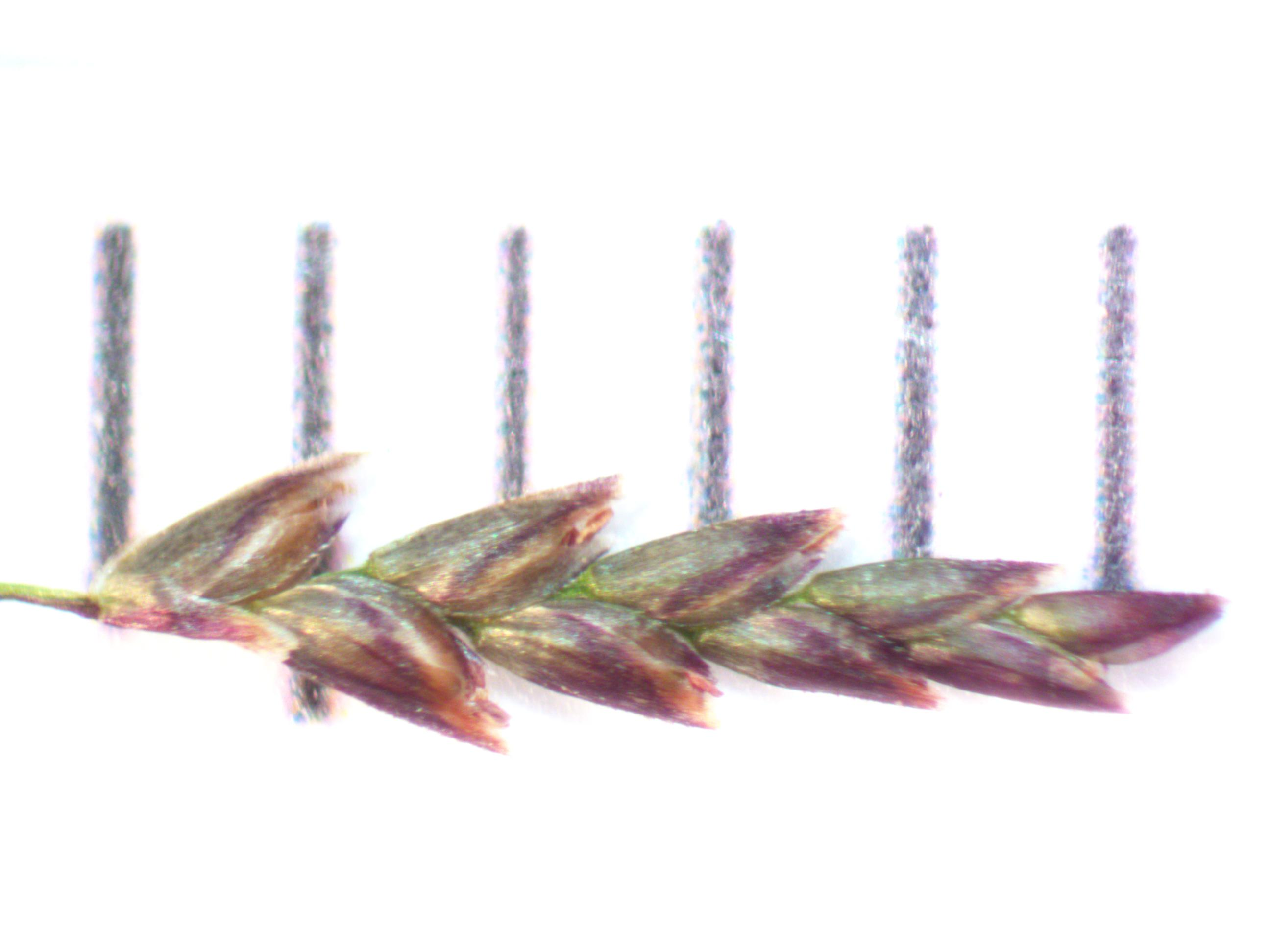 Spikelets are often purplish tinged, 1-1.5 mm wide, usually 6-8 flowered, flattened, unawned and with lemmas 1-2 mm long.